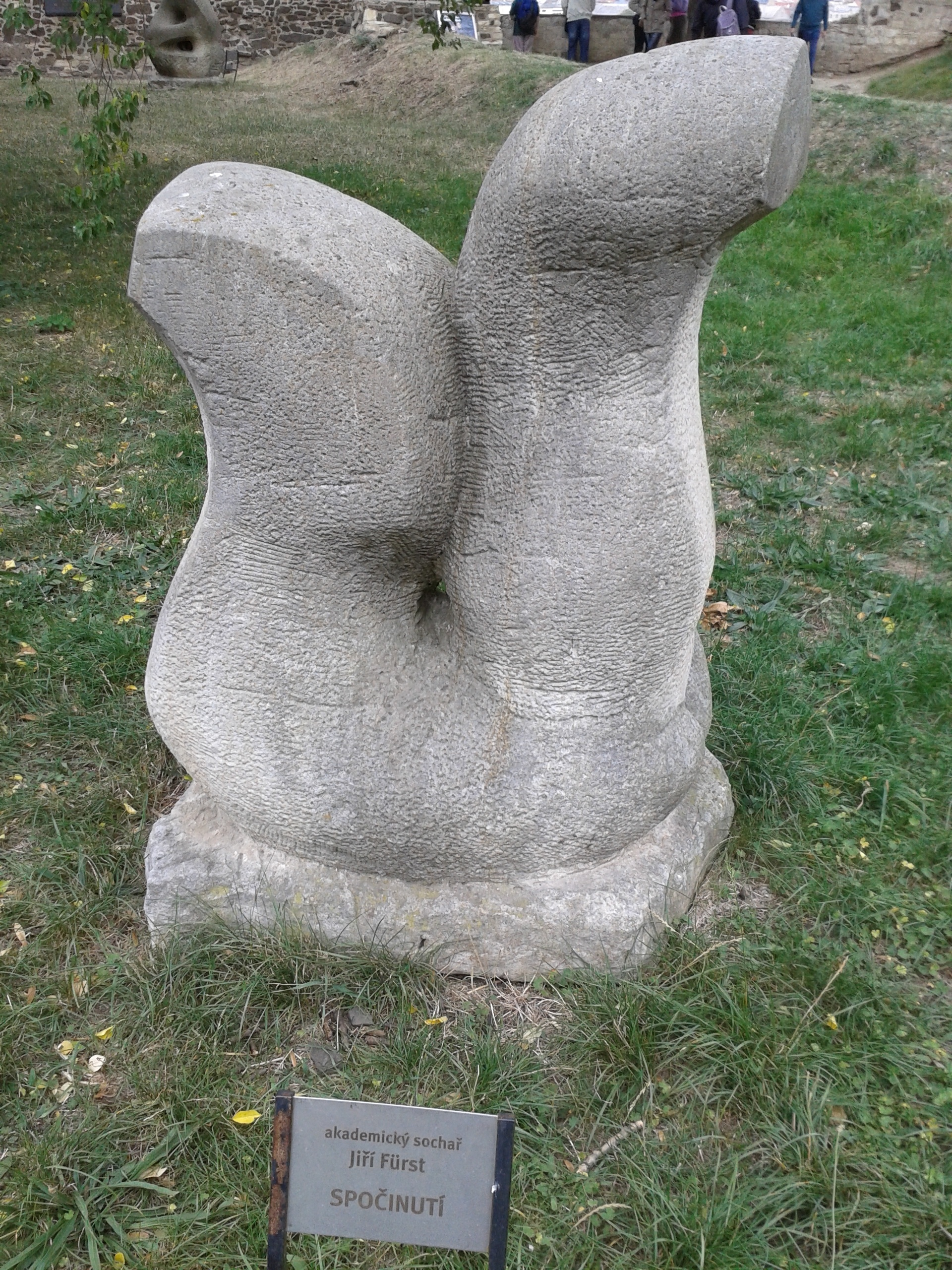 Statue in a public space; Location: Czech Republic, Prague Vyšehradské sets; author: Czech sculptor (Jiří Fürst) George Fürst (* 1954); Name: SPOČINUTÍ (RESTING)